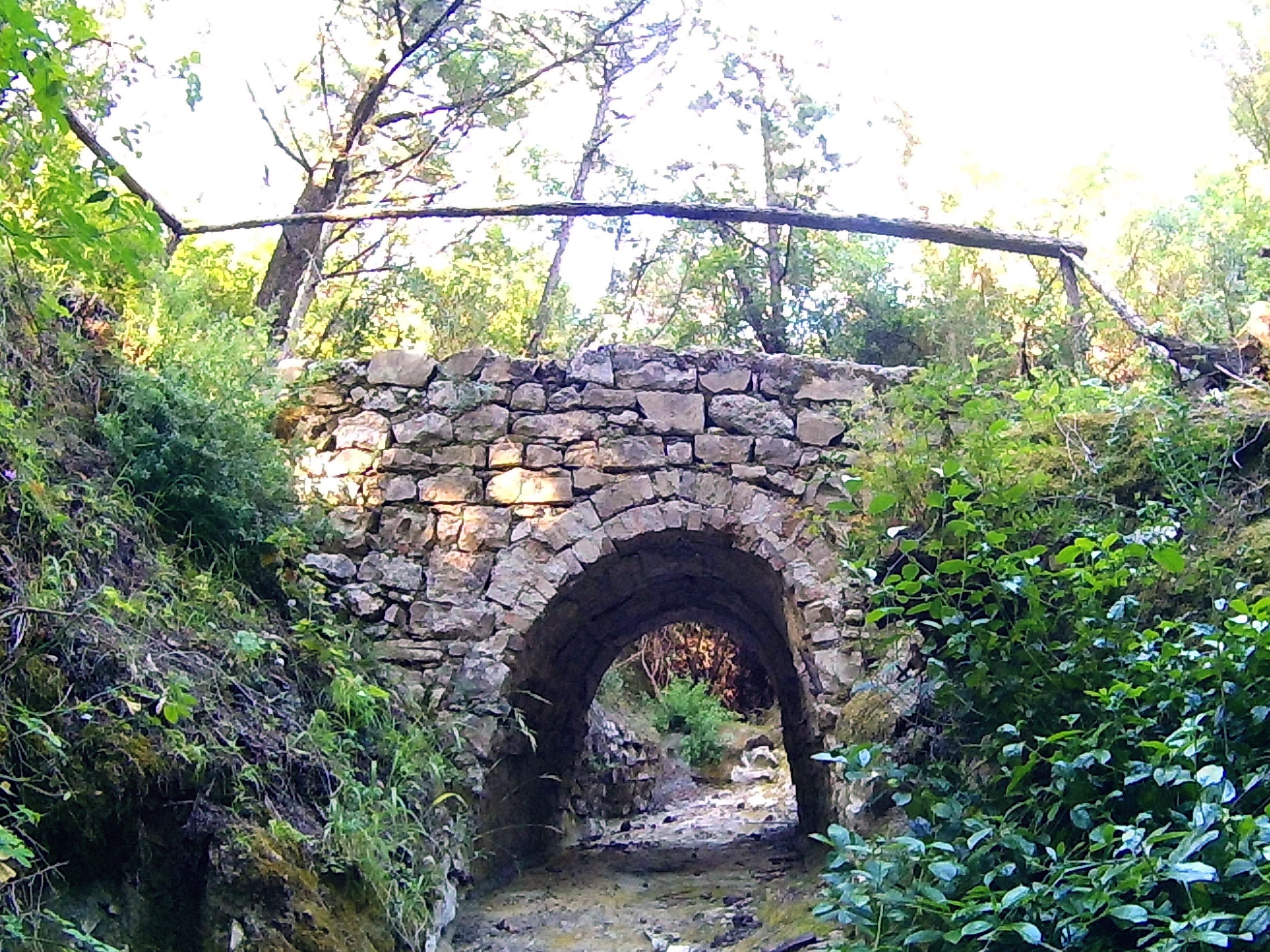 Smole stone bridge at Othoni island, Greece